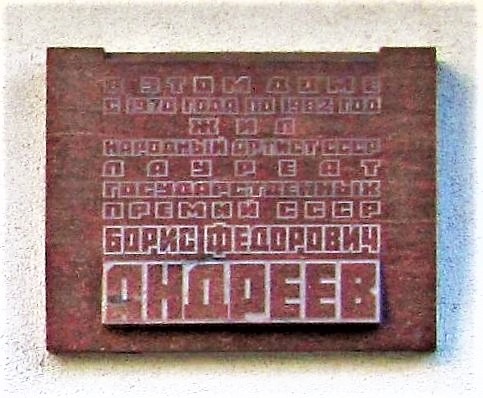 Commemorative Plaque at the house in which lived a famous Soviet actor, Boris Teodorovich Andreyev. Moscow, B. Bronnaya, 2